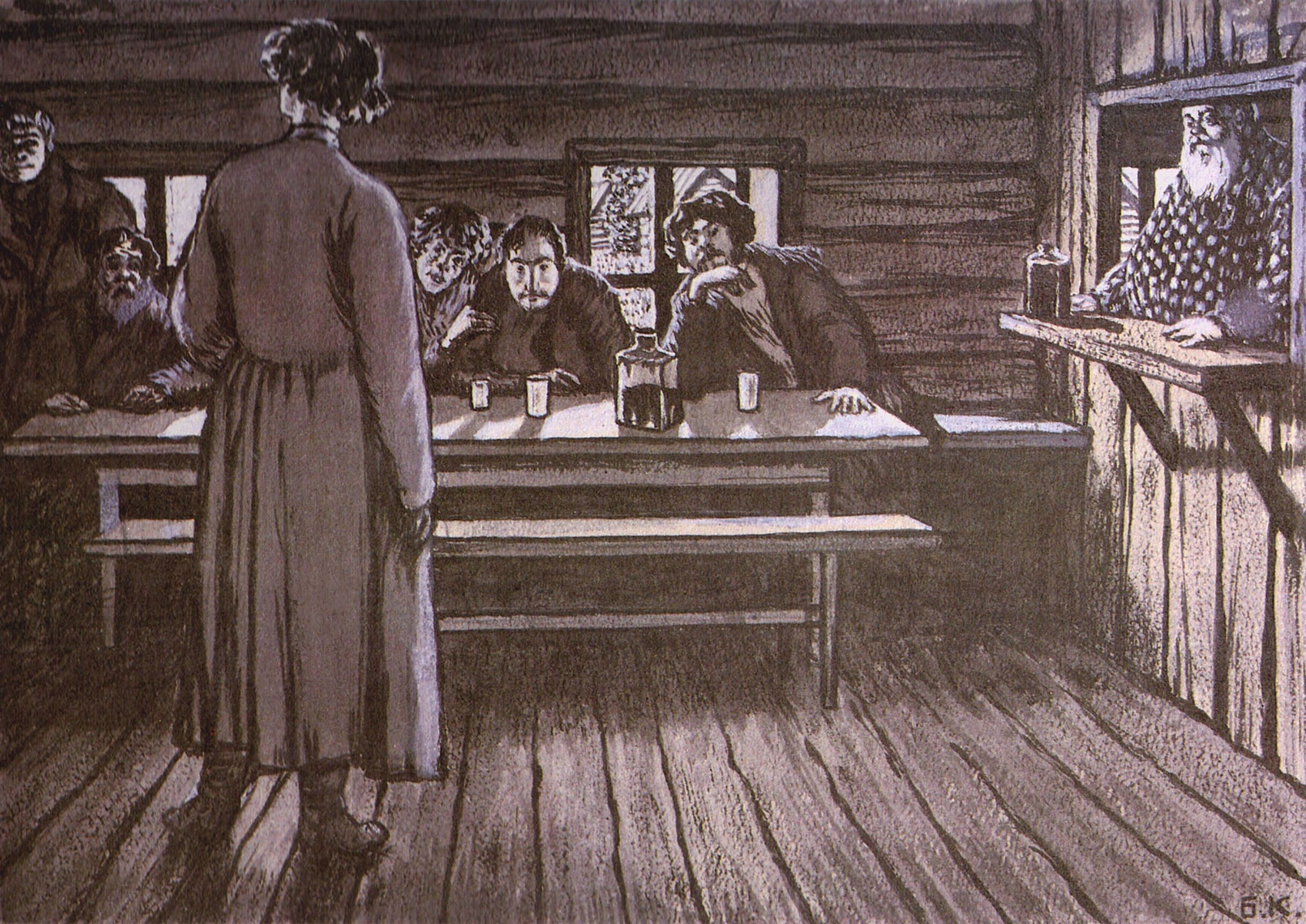 The illustration for the short story The Singers by Ivan Turgenev (from the collection A Sportsman's Sketches). “...He sang, and in every sound of his voice one seemed to feel something dear and akin to us, something of breadth and space, as though the familiar steppes were unfolding before our eyes and stretching away into endless distance. I felt the tears gathering in my bosom and rising to my eyes; suddenly I was struck by dull, smothered sobs... I looked round — the innkeeper’s wife was weeping, her bosom pressed close to the window. Yakov threw a quick glance at her, and he sang more sweetly, more melodiously than ever; Nikolai Ivanitch looked down; the Blinkard turned away; the Gabbler, quite touched, stood, his gaping mouth stupidly open; the humble peasant was sobbing softly in the corner, and shaking his head with a plaintive murmur; and on the iron visage of the Wild Master, from under his overhanging brows there slowly rolled a heavy tear; the booth-keeper raised his clenched fist to his brow, and did not stir...” —Ivan Turgenev. The Singers (translation by Constance Garnett).